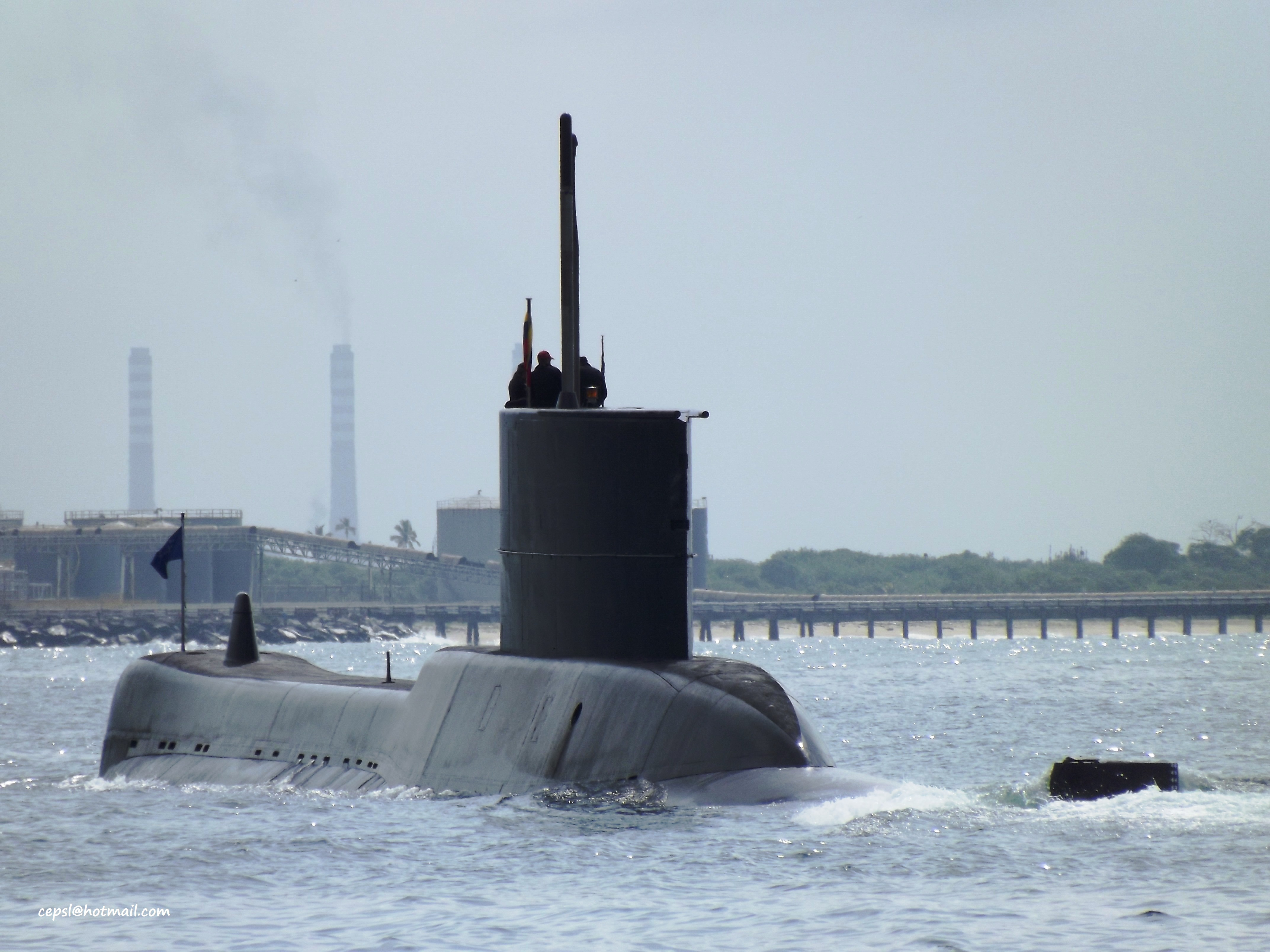 Submarino Oceánico Tipo U-209/A-1300 S-31 Sabalo